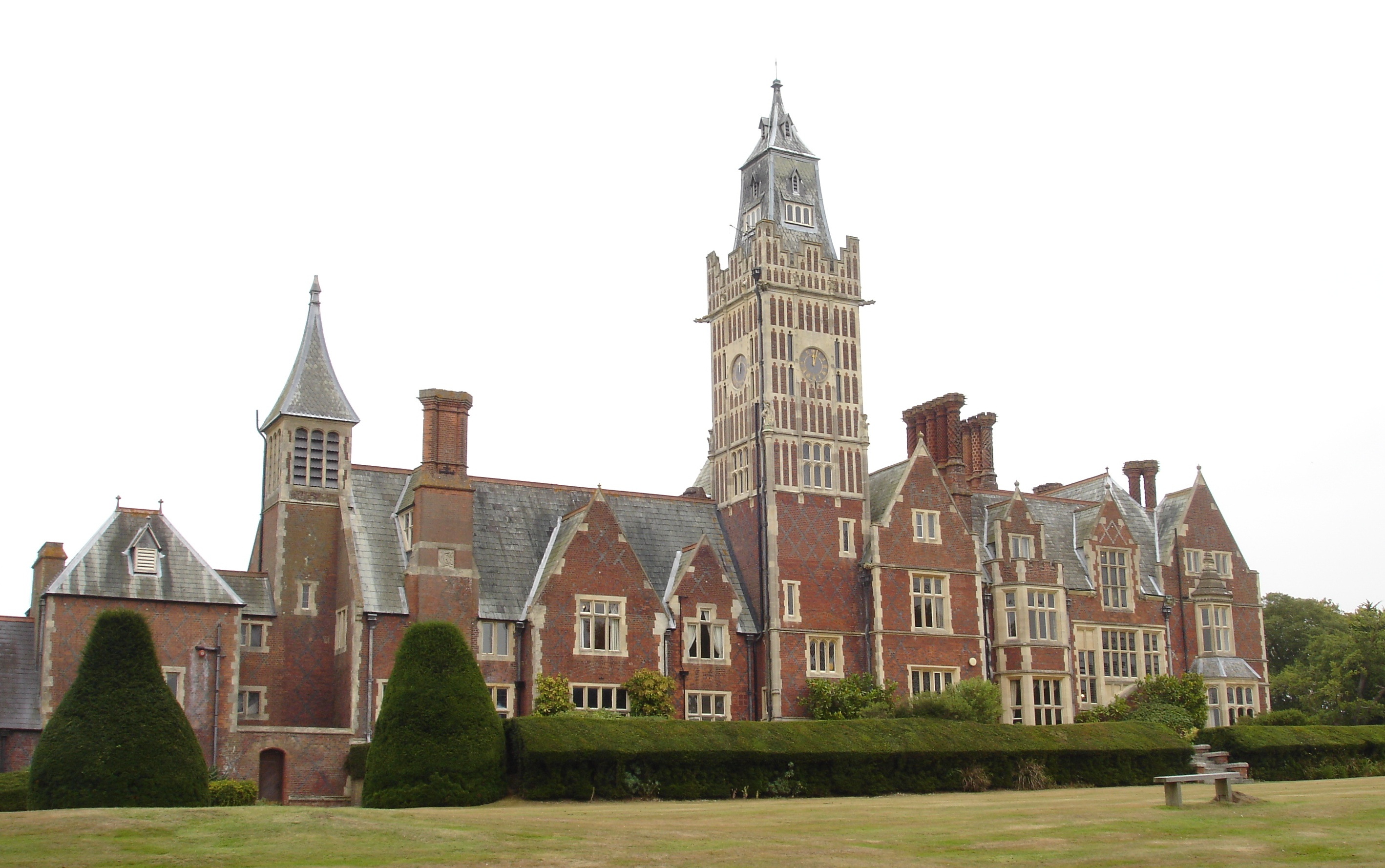 The rear of Aldermaston Court in September 2009.